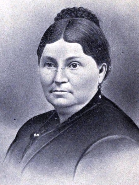 Photo of Clarissa C. Decker, sixth wife of Brigham Young, the 2nd President of The Church of Jesus Christ of Latter-day Saints.